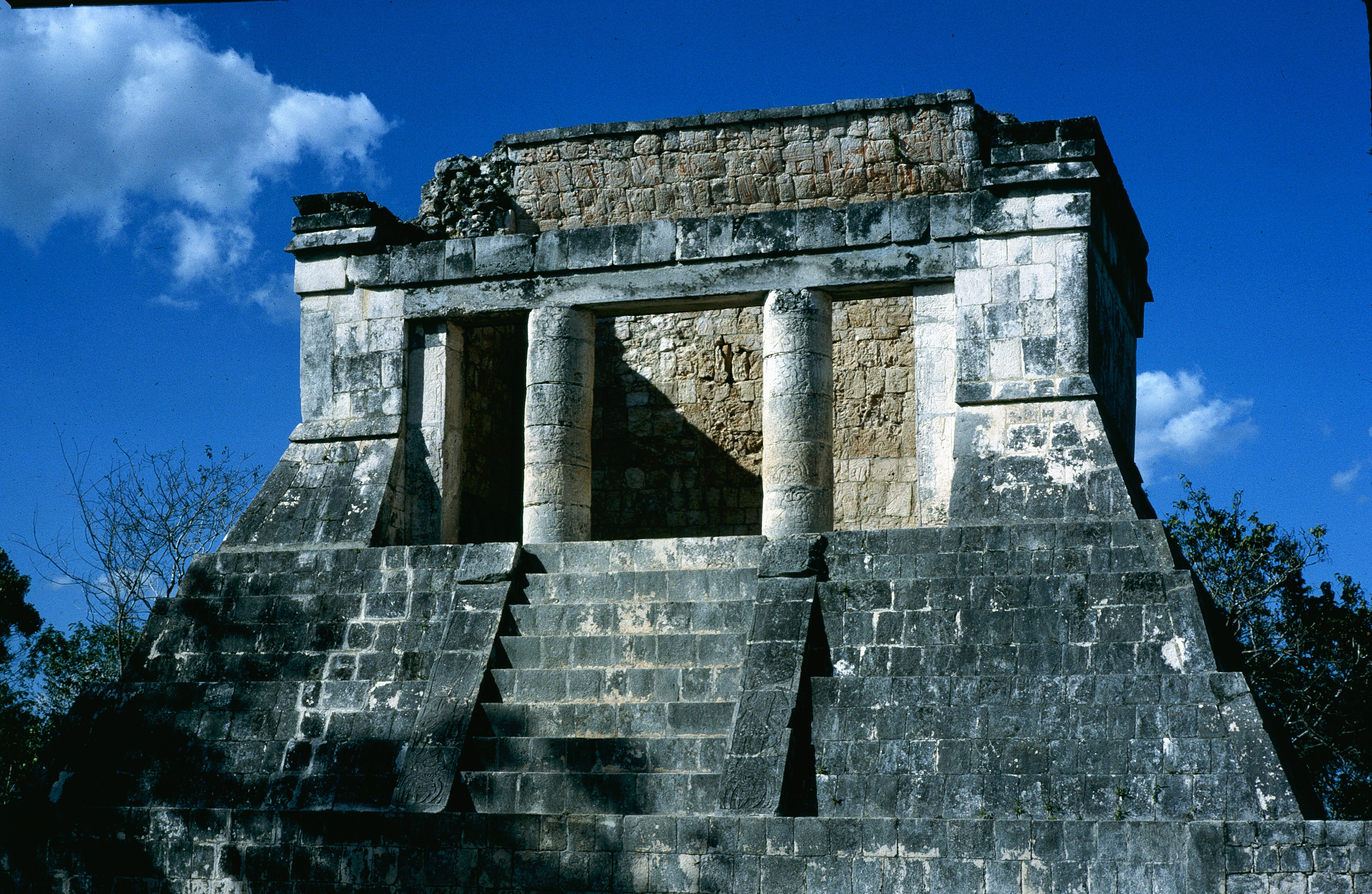 Chichen Itza, Yucatan, Mexico: north temple of the great ballcourt